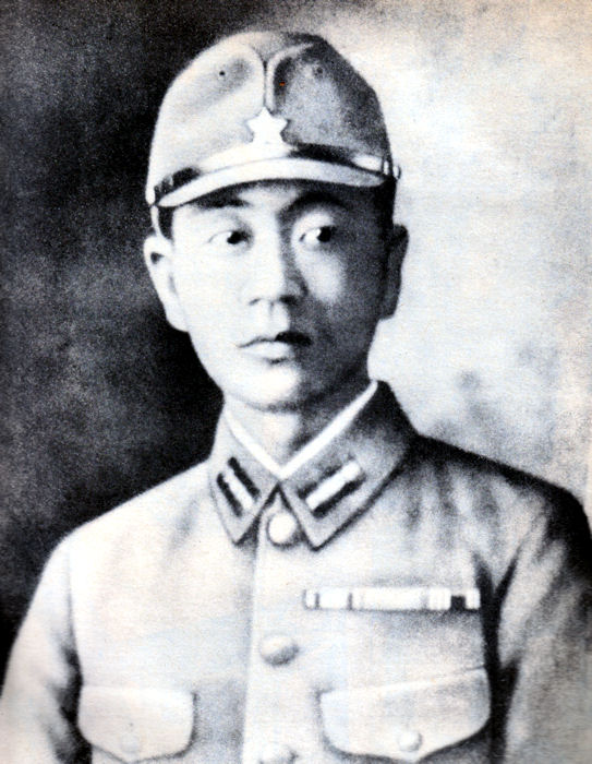 Shouichi YOKOI as the army sergeant.